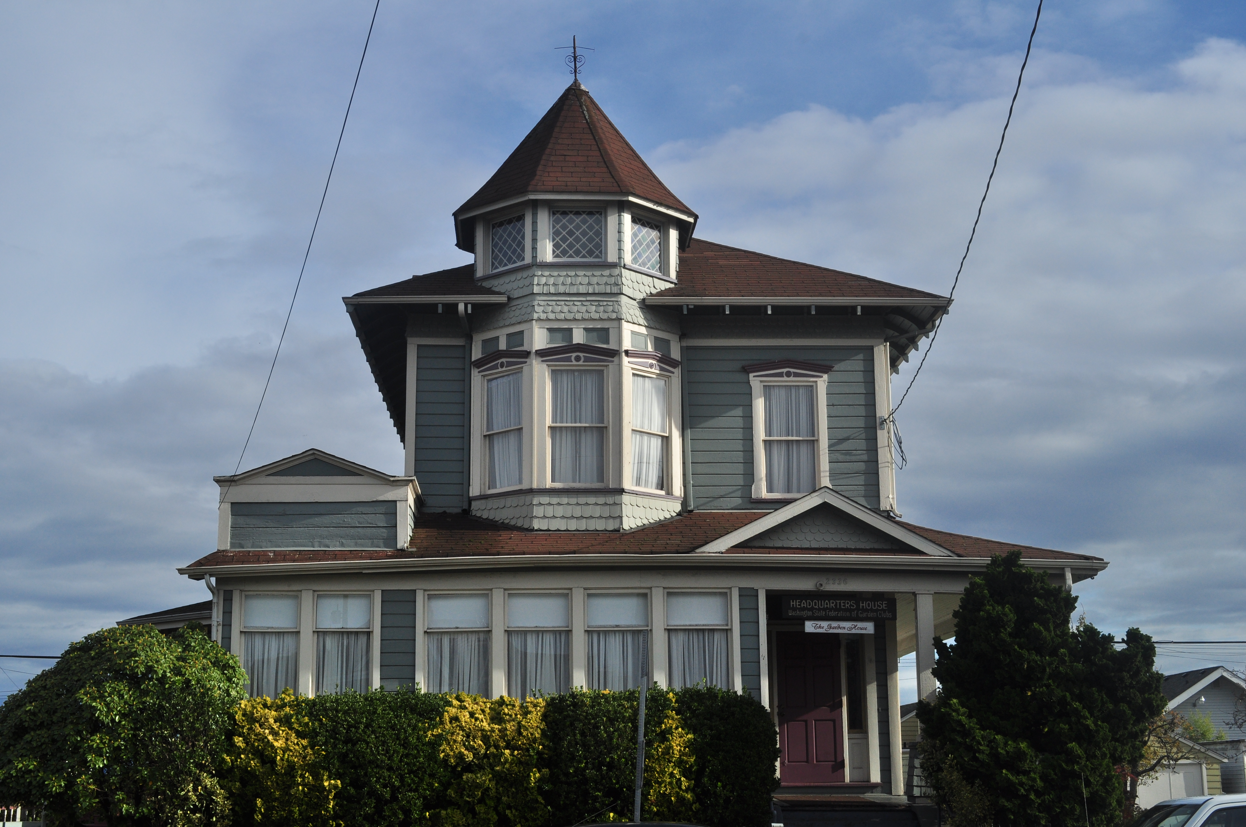 Turner-Koepf House, 2336 15th Avenue S in the Beacon Hill neighborhood of Seattle, Washington. The house, now the headquarters of the Washington State Federation of Garden Clubs, has been listed since 1976 on the National Register of Historic Places. Originally built on a different site for E.A. Turner in 1883, a Mr. Koepf bought it, moved it to its present site in 1906, and remodeled it from Italian villa style to Queen Anne style. The house was acquired in 1916 by Jefferson Park Ladies' Improvement Club. [1]